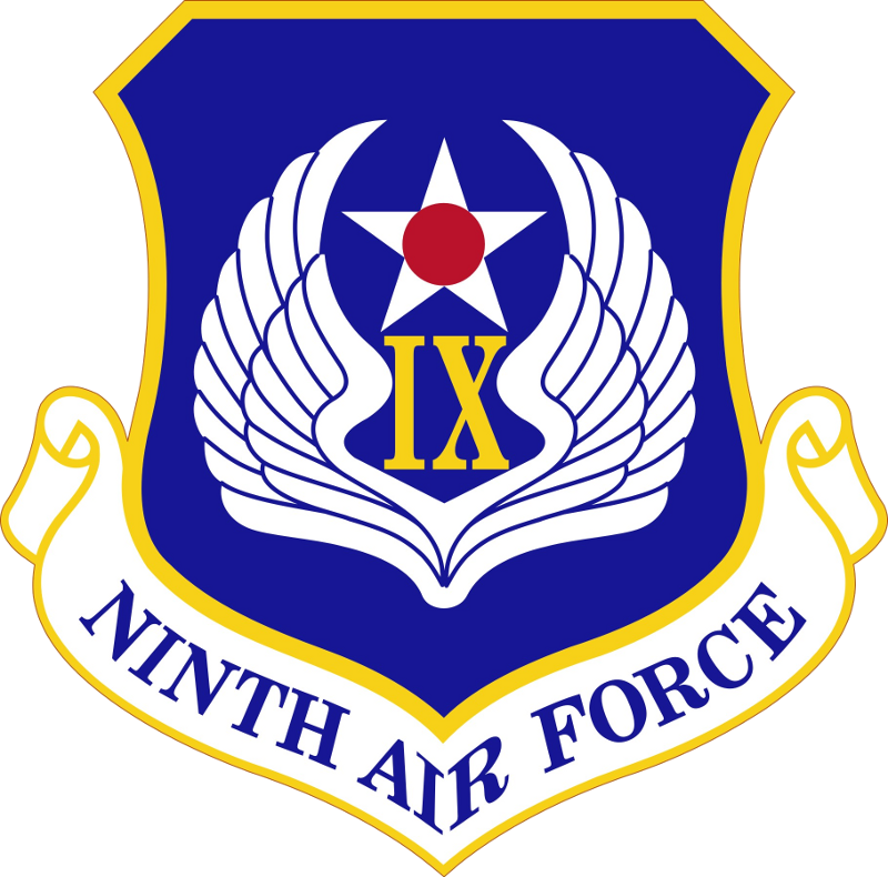 Emblem of the Ninth Air Force, a numbered air force of the United States Air Force